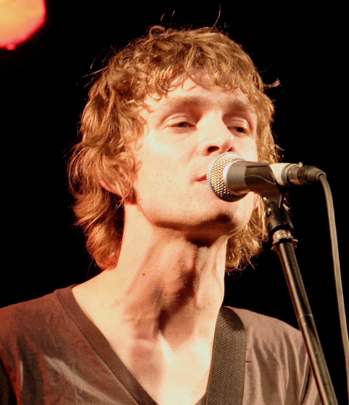 Brendan Benson at the Crocodile Cafe in Seattle, Washington on November 8th, 2005.